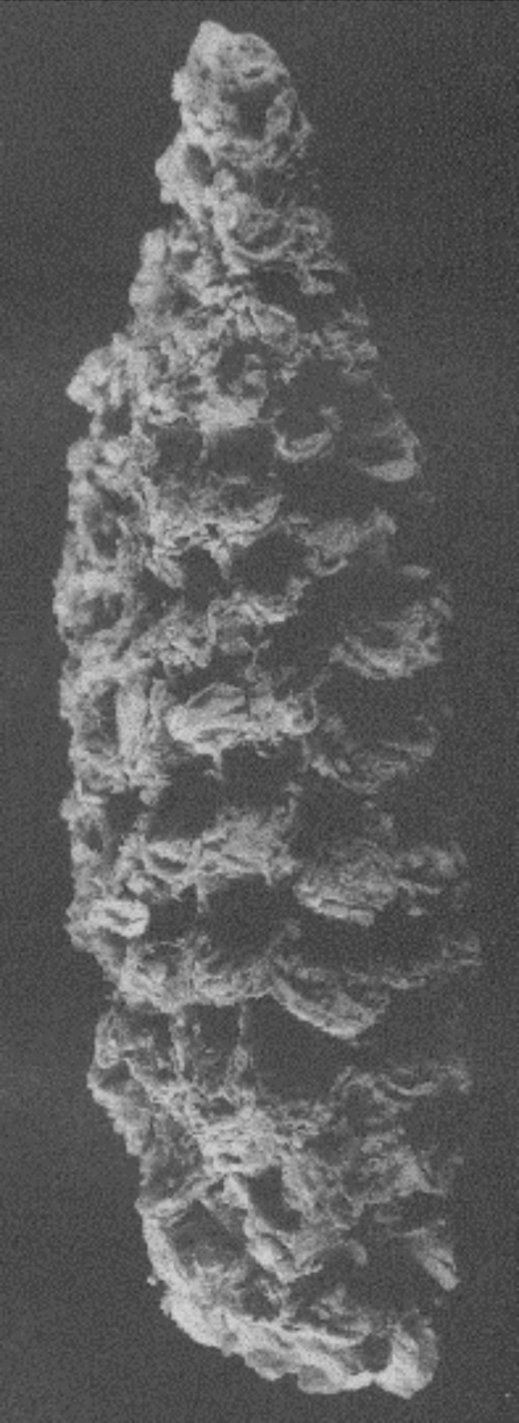 Maize cob from the Ocampo Caves in Mexico dated to 3,890 years before the present. aDNA can reveal the selection of traits during early maize domestication that cannot be observed in the fossil record.